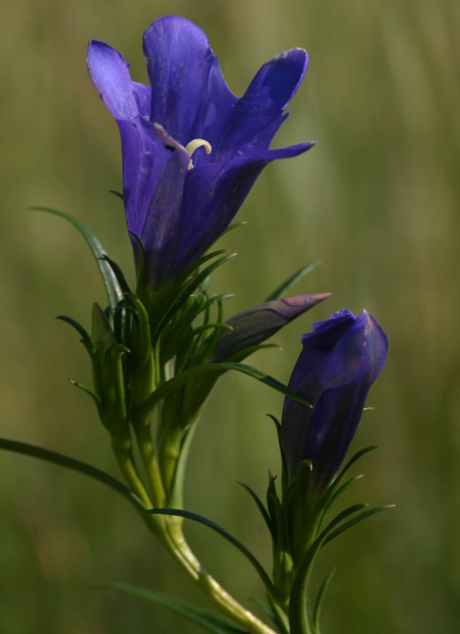 Gentiana pneumonanthe in Hanság, Hungary